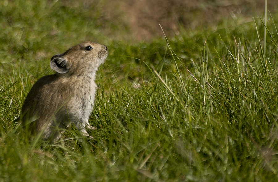 它与鸟在草原上可以共同使用一个巢